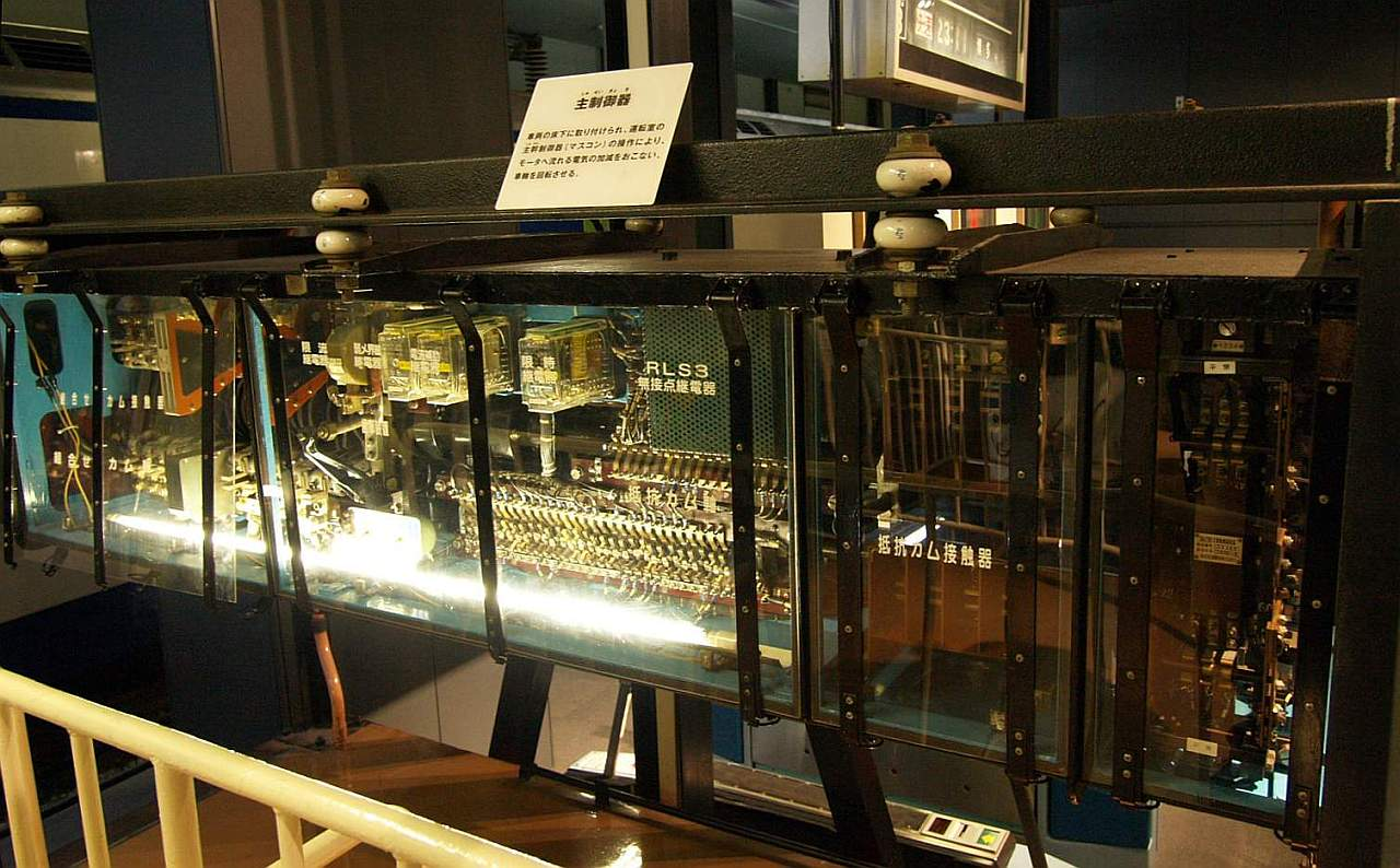 Controller of JNR 101series EMU..